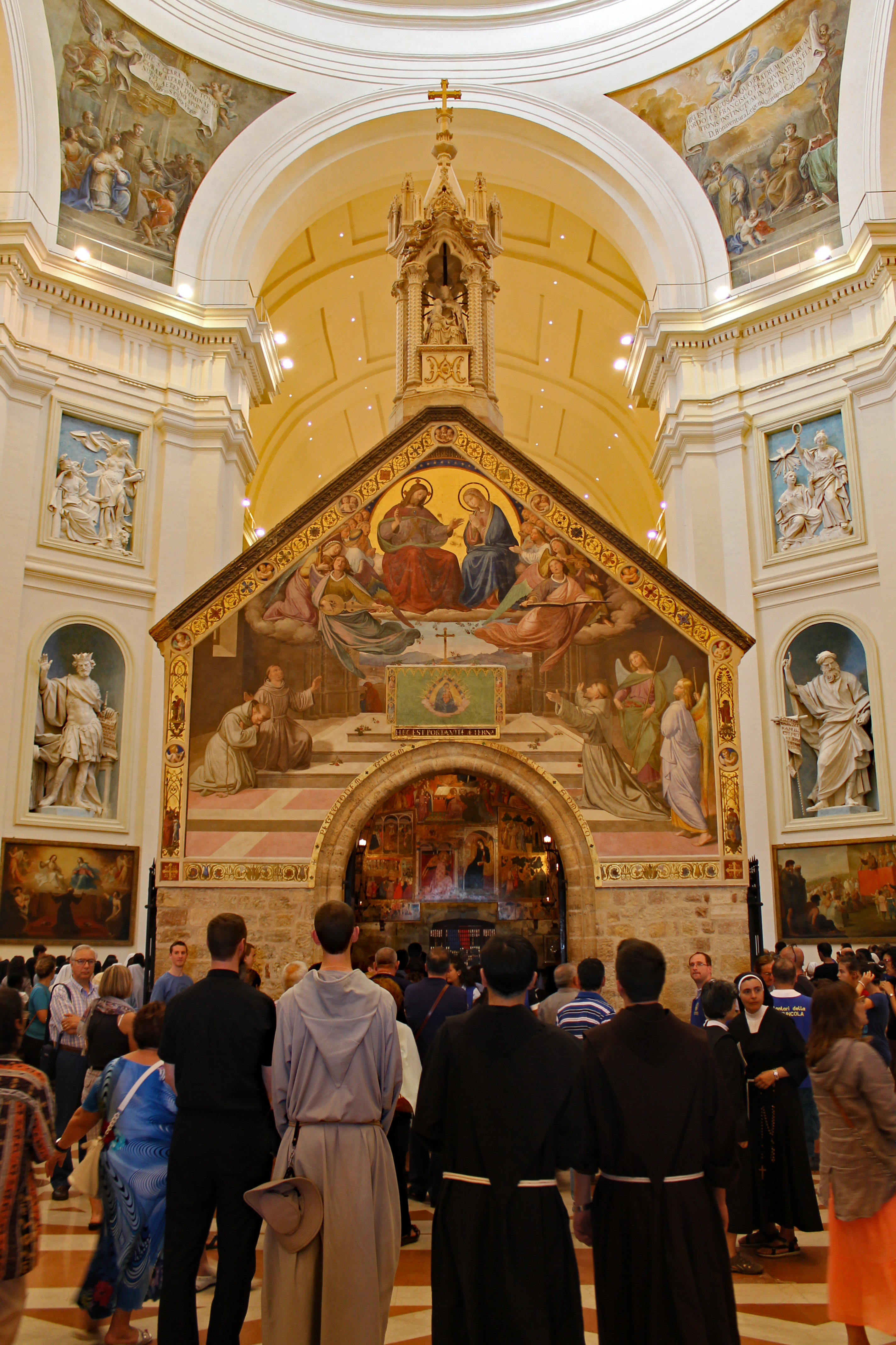 An image of the Portiuncula chapel in the Basilica of Our Lady of the Angels near Assisi, on the vigil of the Feast of the Pardon (August 2), a celebration commemorating a special indulgence attached to the chapel by Pope Honorius III on St. Francis' request.